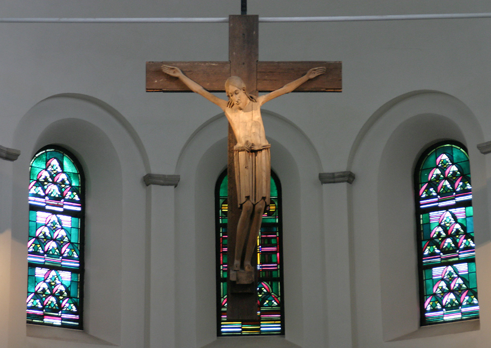 Copy of the St. George crucifix at the romanesque church St. Georg (Köln)